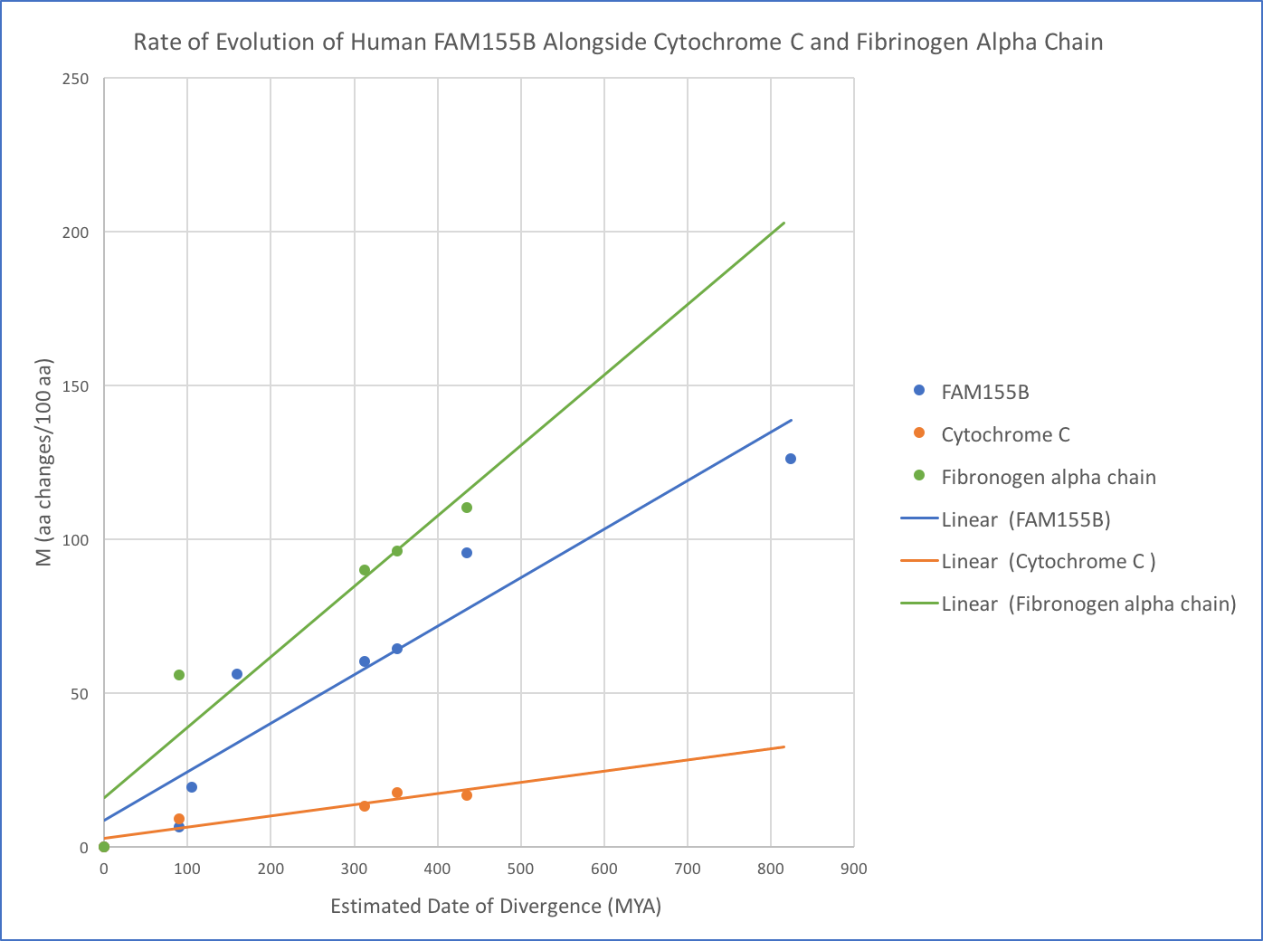 Rate of Evolution of FAM155B gene